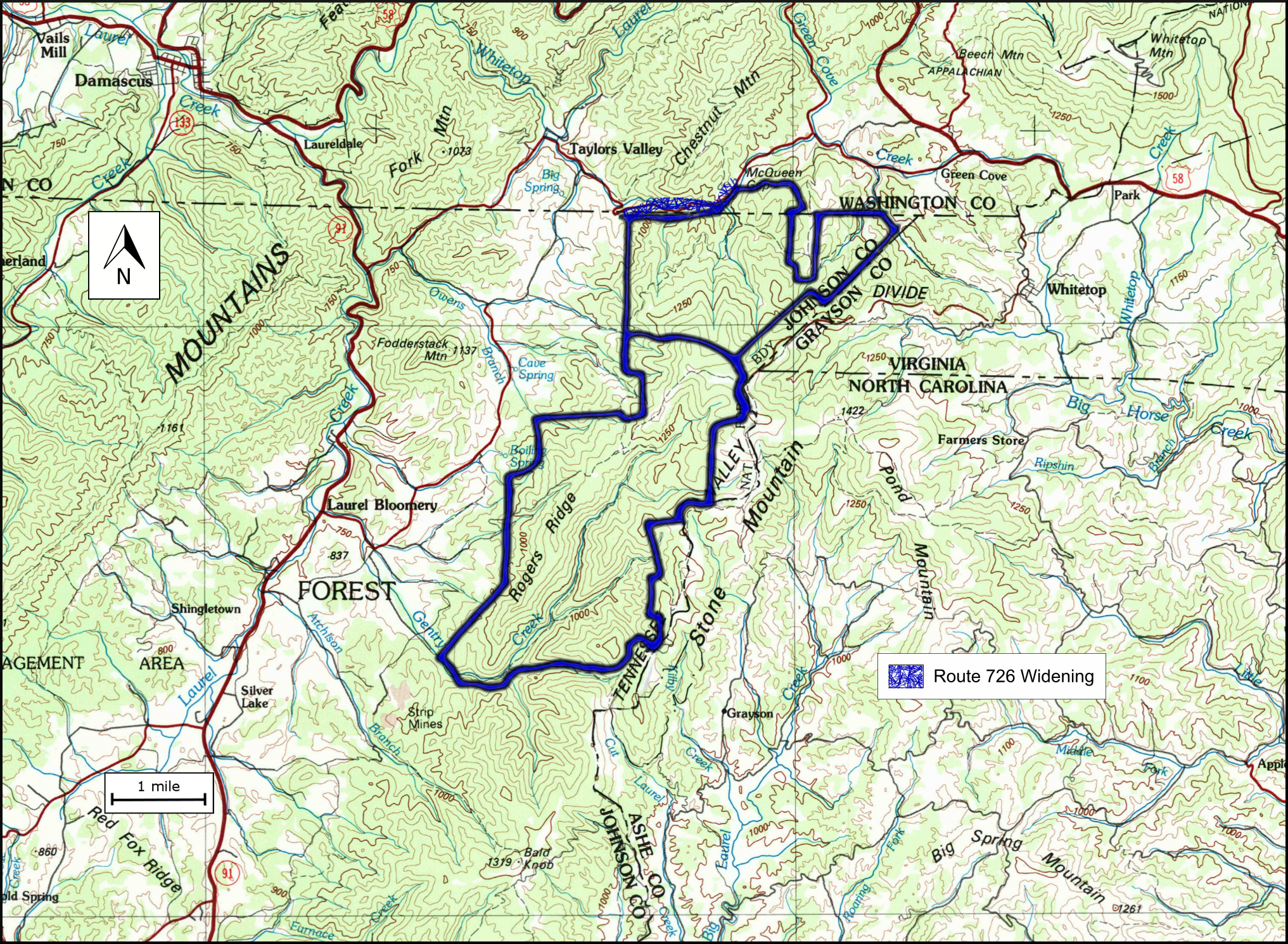 Boundary of the Rogers Ridge wildland in the Jefferson National Forest and Cherokee National Forest as identified by the Wilderness Society